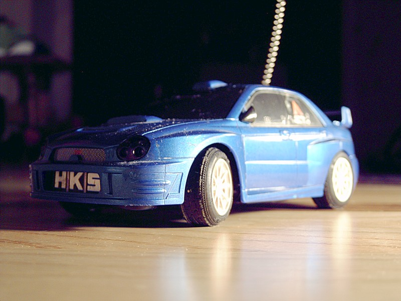 A modified toy radio controlled, en:2001-model Subaru Impreza WRX STi in scale 1/16. Image taken and released into the public domain by User:Kallemax Modifications: Sprint engine (higher top speed) External antenna (hole drilled beside the spoiler) White rims and red "brake calipers" Tyres changed from original Pirellis to Yokohama Advans (buffed from a en:1986-model Toyota MR2 AW11) Original rally stickers removed, replaced with stickers from HKS (grille), Advan (rear side windows) and Trygg Trafikk (lit: "Safe Traffic" nor, roof)